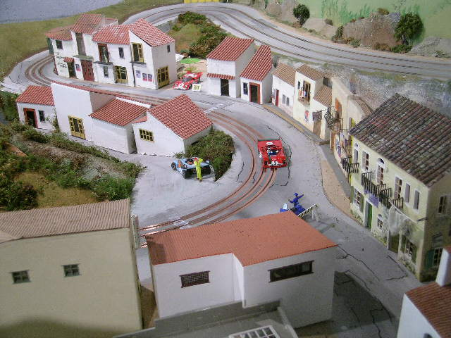 Three-lane routed track inspired by the Targa Florio. Slot car track inspired by the 1970's Targa, probably modelled after the U-turn in Collesano.